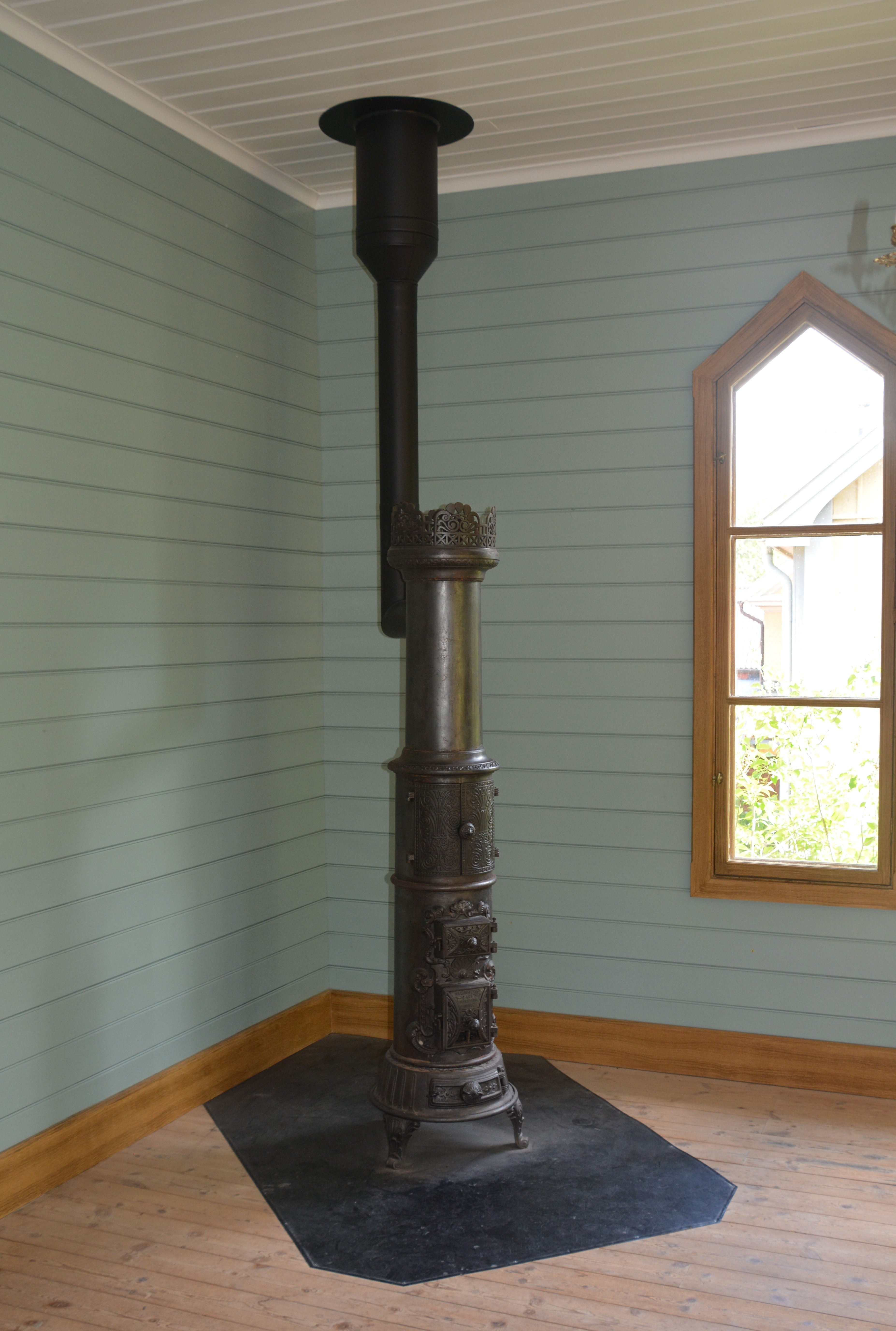 Oven from N.A: Christensen, Nyköbing Mors. In "Kägelbanan", Torekällberget, Södertälje, Sweden